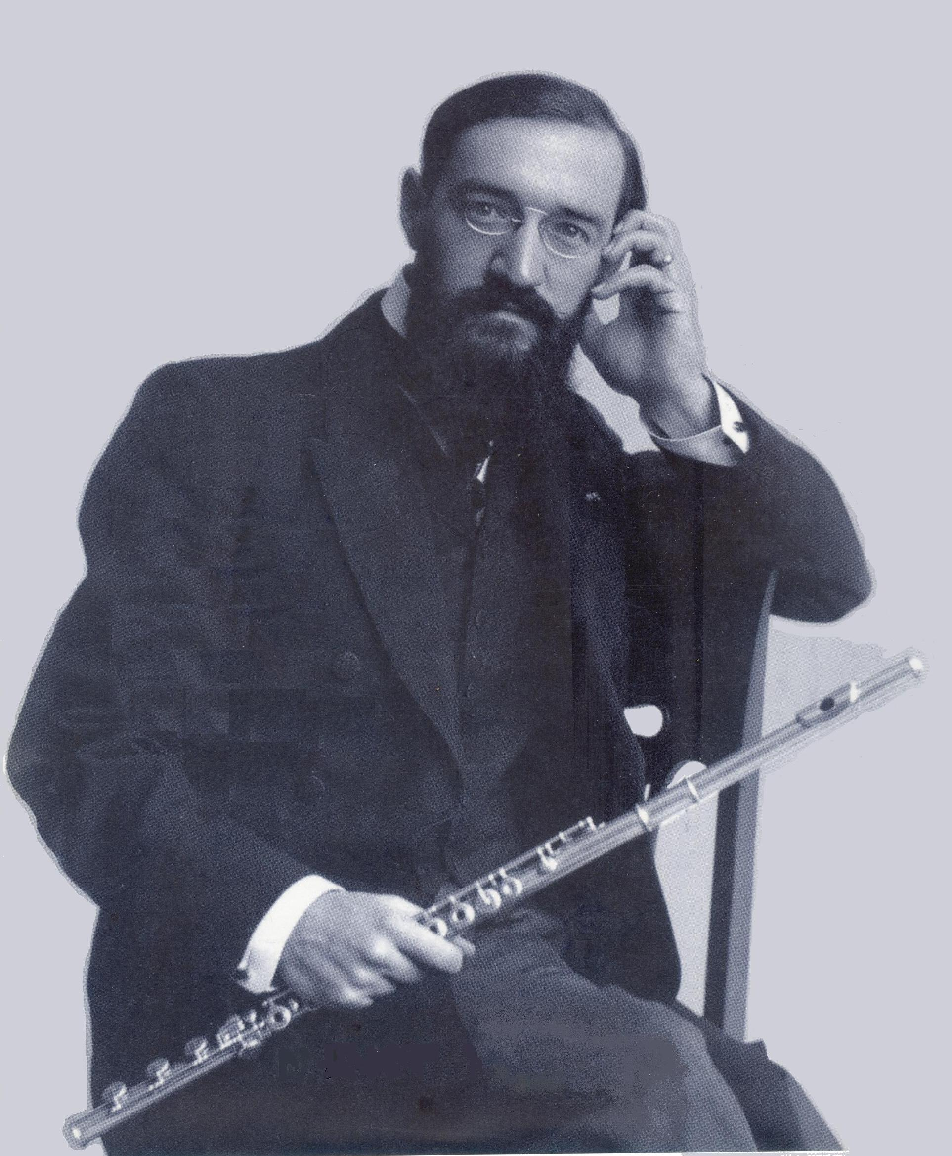 Photogtaph of flautist Georges Barrère in New York, 1908.